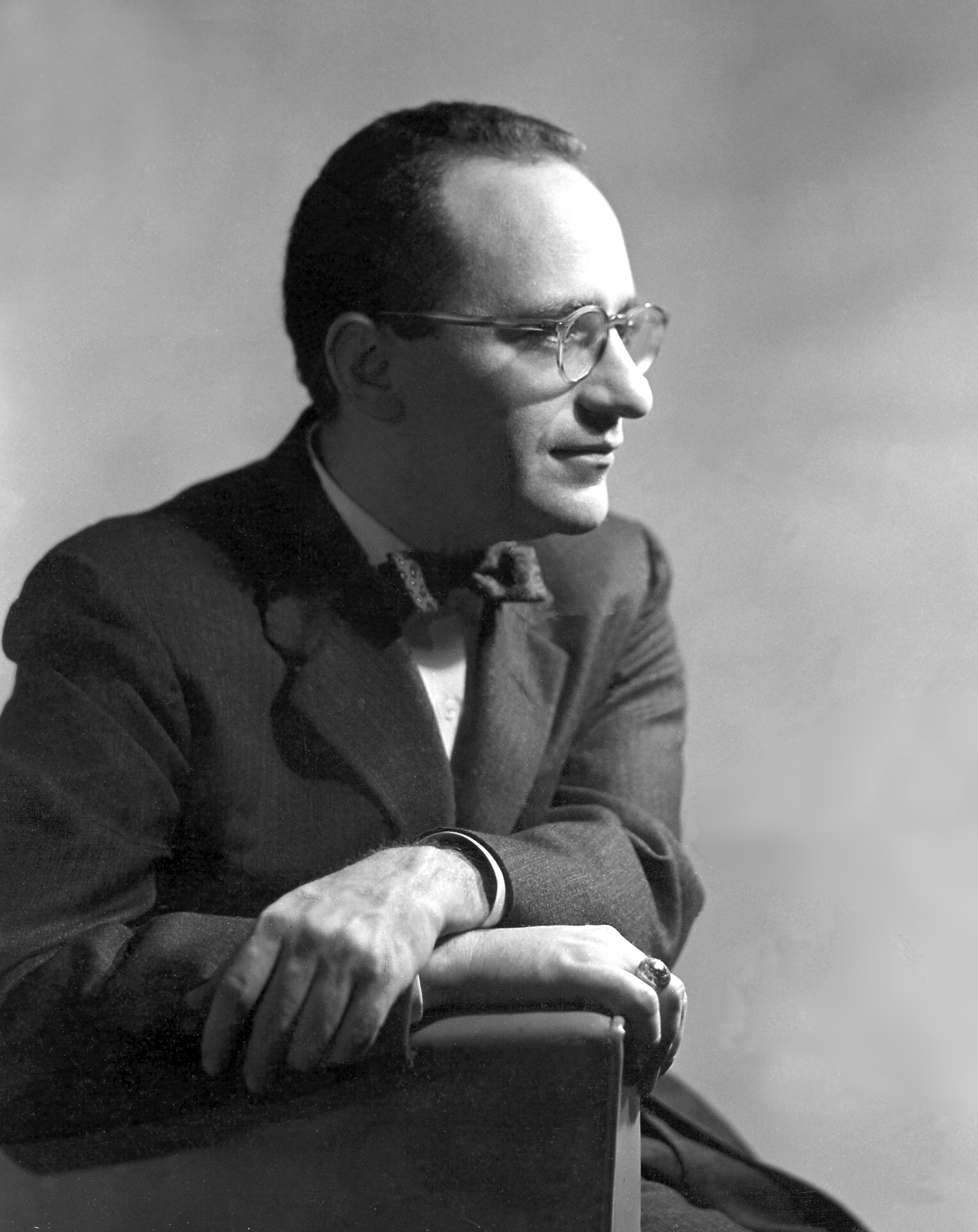 Young Murray Rothbard